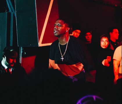 A$AP TyY performing during his headline European tour at The Old Blue Last in London, UK. The Old Blue Last 38 Great Eastern St, Shoreditch, London EC2A 3ES